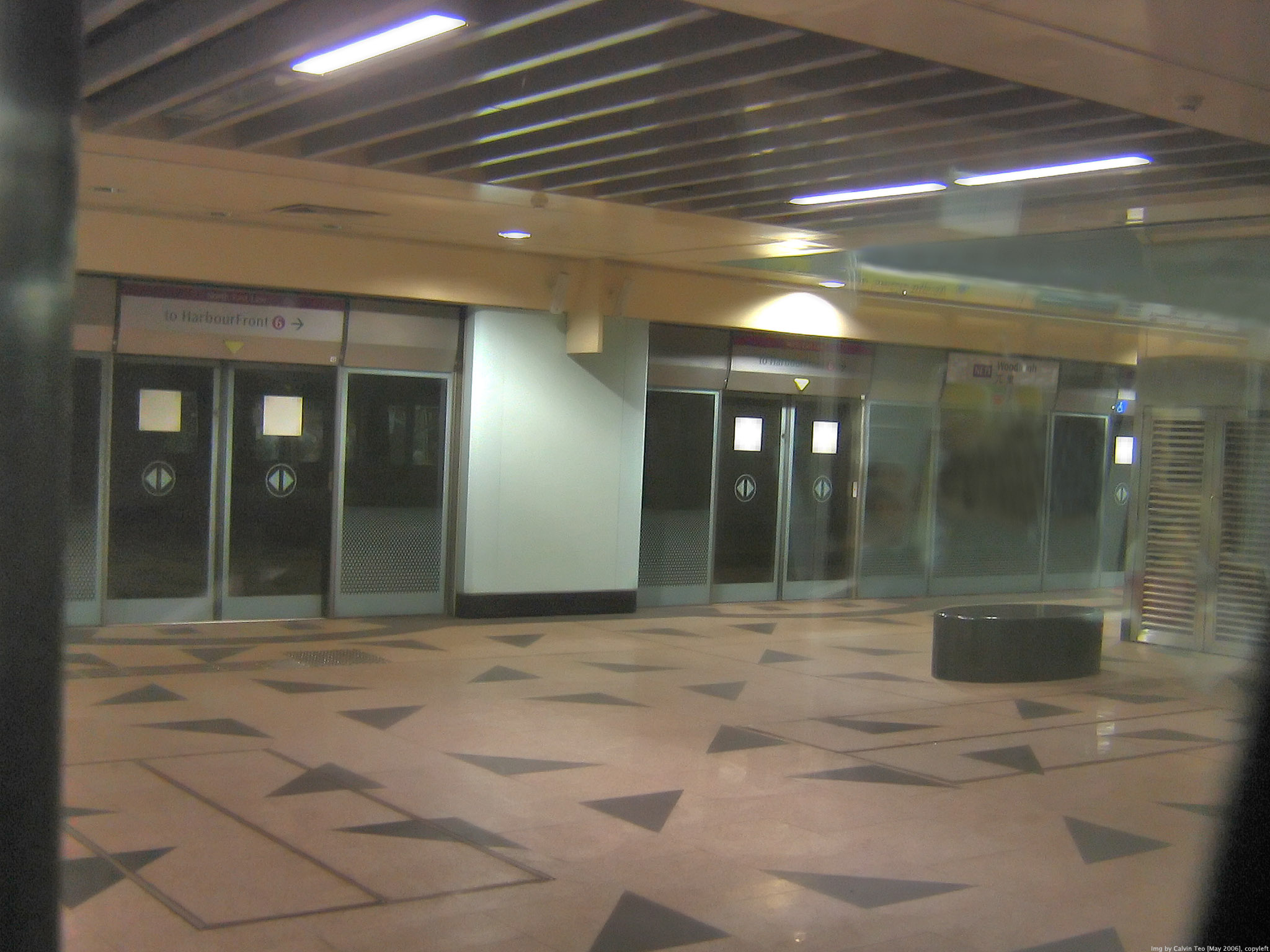 Platform of NE11 Woodleigh MRT Station of the North East Line, Singapore. This station is closed to passengers. Img by Calvin Teo, May 2006